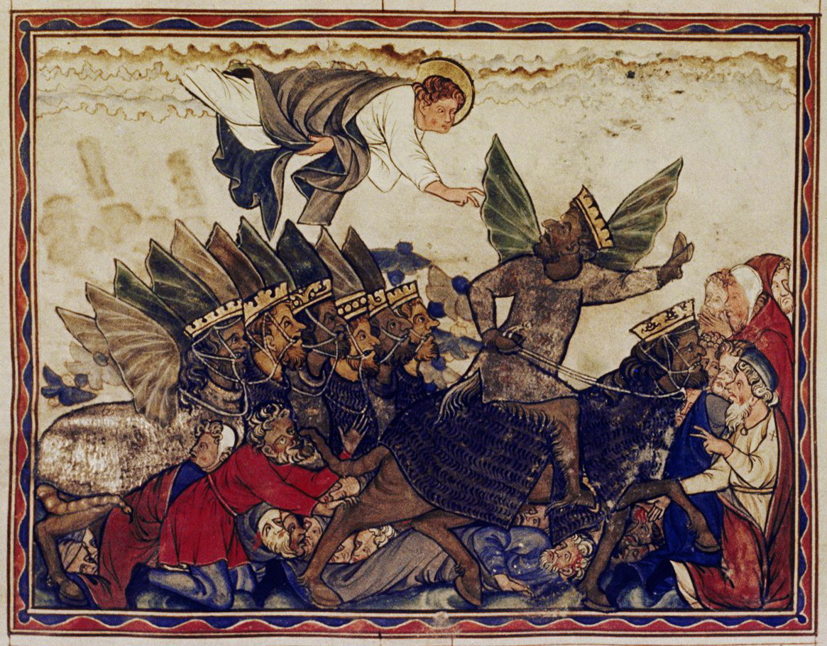 Douce Apocalypse - Bodleian Ms180